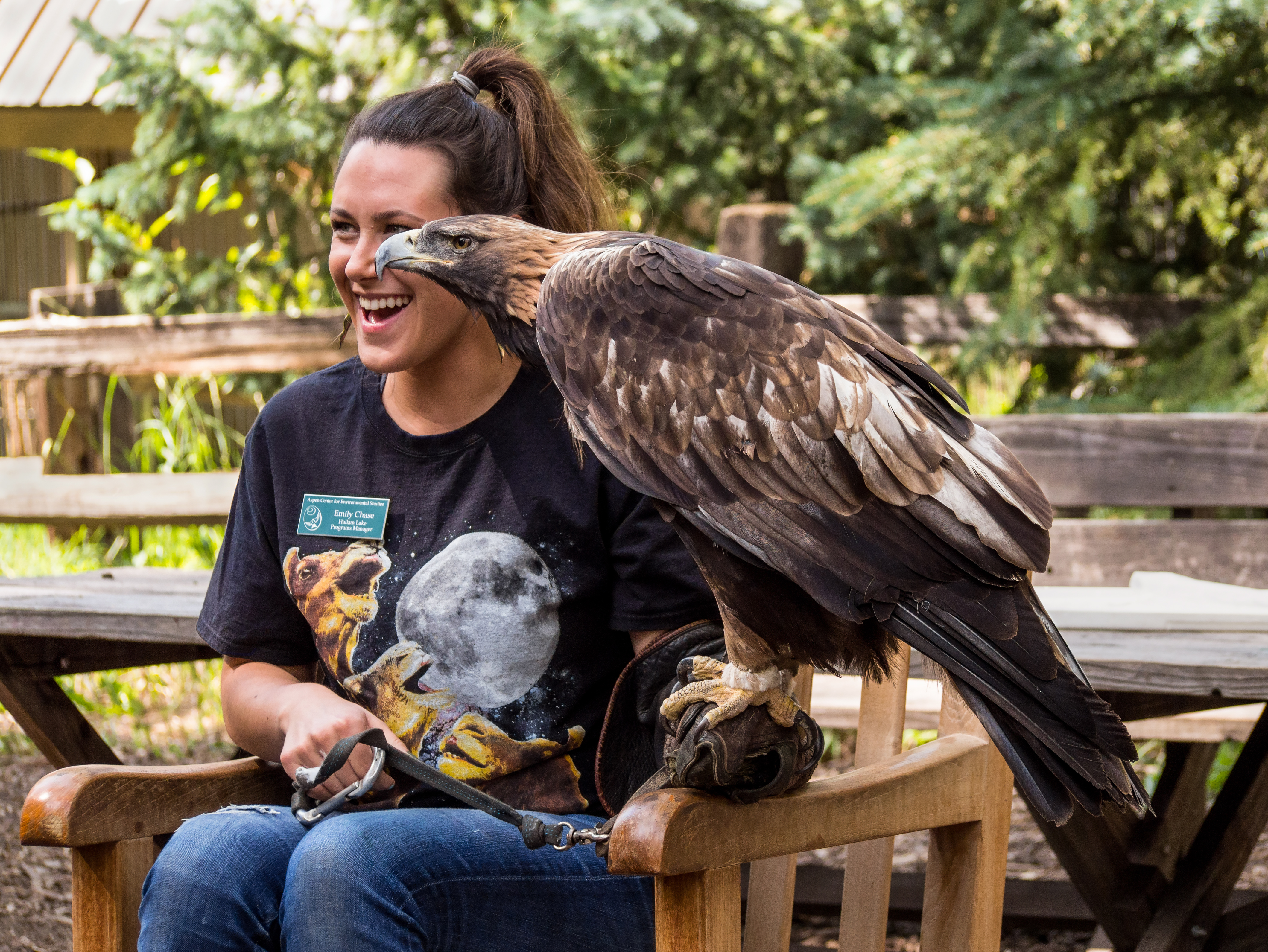 Golden eagle (Aquila chrysaetos) with handler at the Aspen Center for Environmental Studies. The bird is their "resident golden eagle", having been rescued back in 1982, and unable to fly.